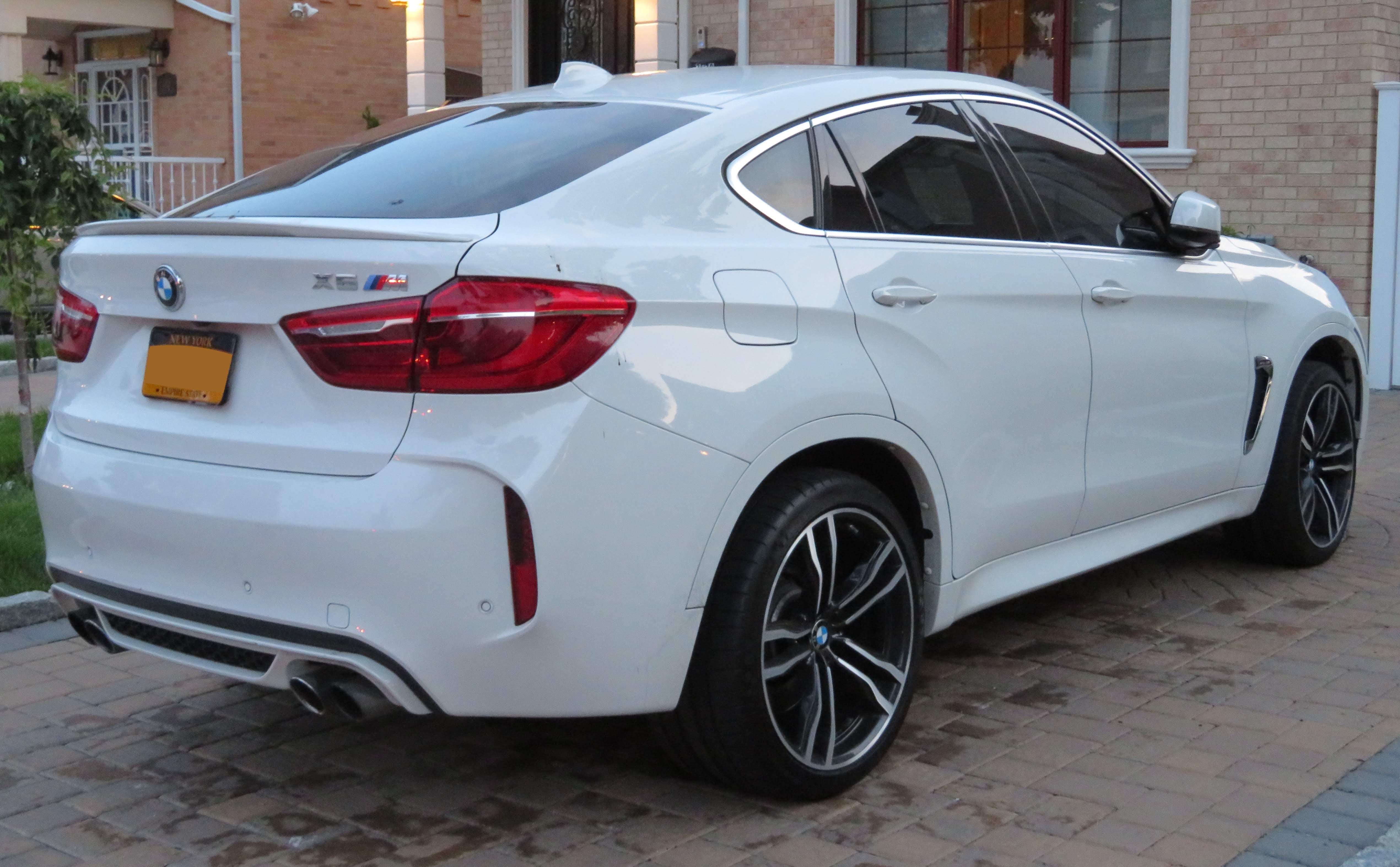 Photographed in Queens, New York